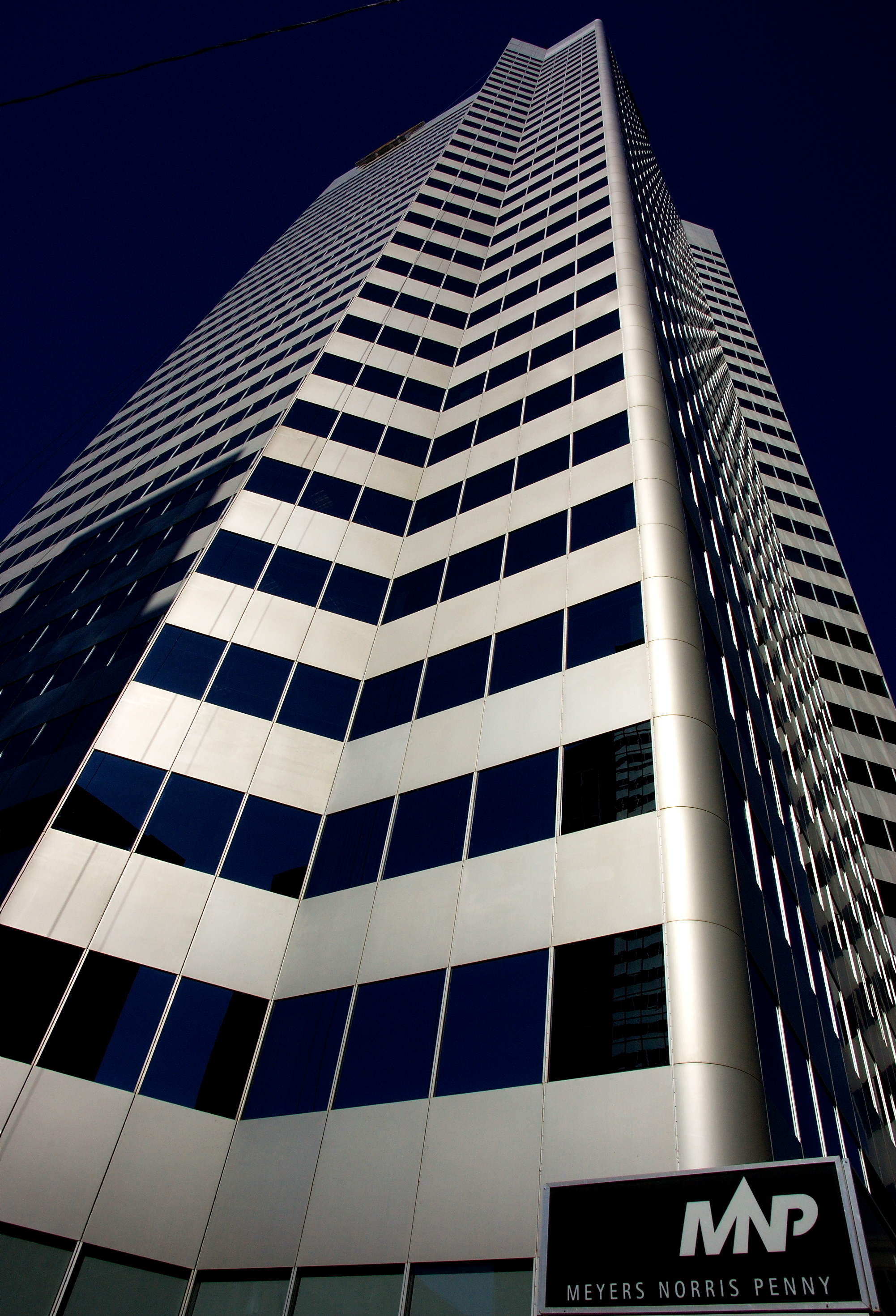 Bell Tower in downtown Edmonton Alberta Canada.